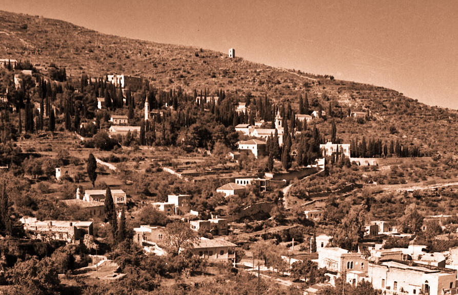 The Temple that Alice May Carey built on Mount Ora, above ein Karim